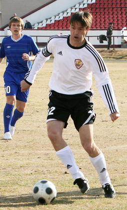 Georgy Garmashov in the match «FC Chita» — «FC Yakutiya Yakutsk» in first round of the Russian Second Division 2011/2012